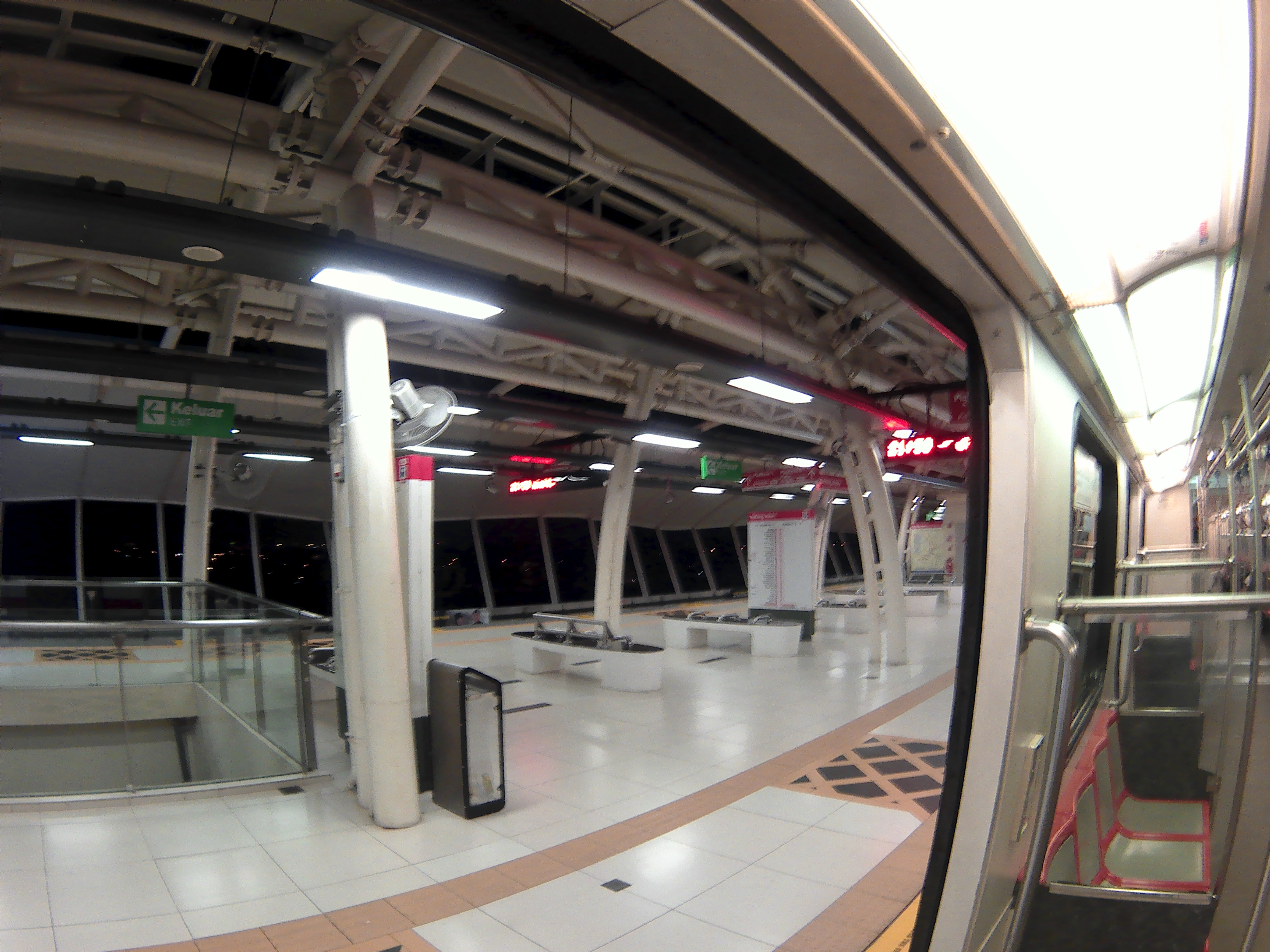 Subang Alam LRT Station view from train